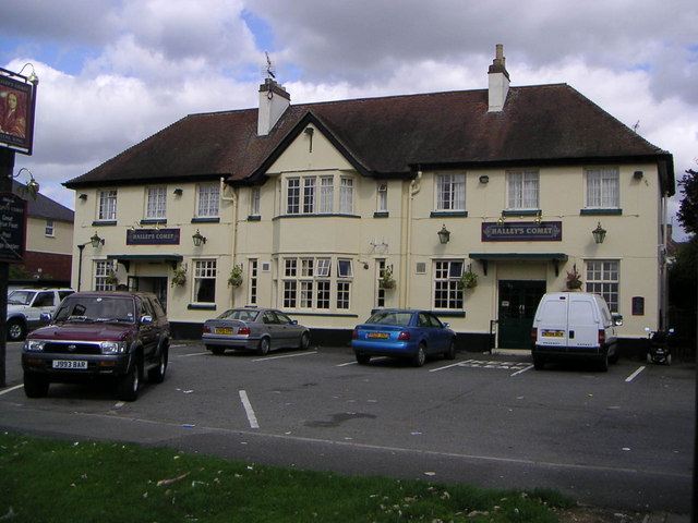 Halleys Commet Public House. Although on one of Milton Keynes estates (Bradville), this public house stands on Bradwell Road, which has been around far longer than the "grid system" of MK, as has much of Bradville.